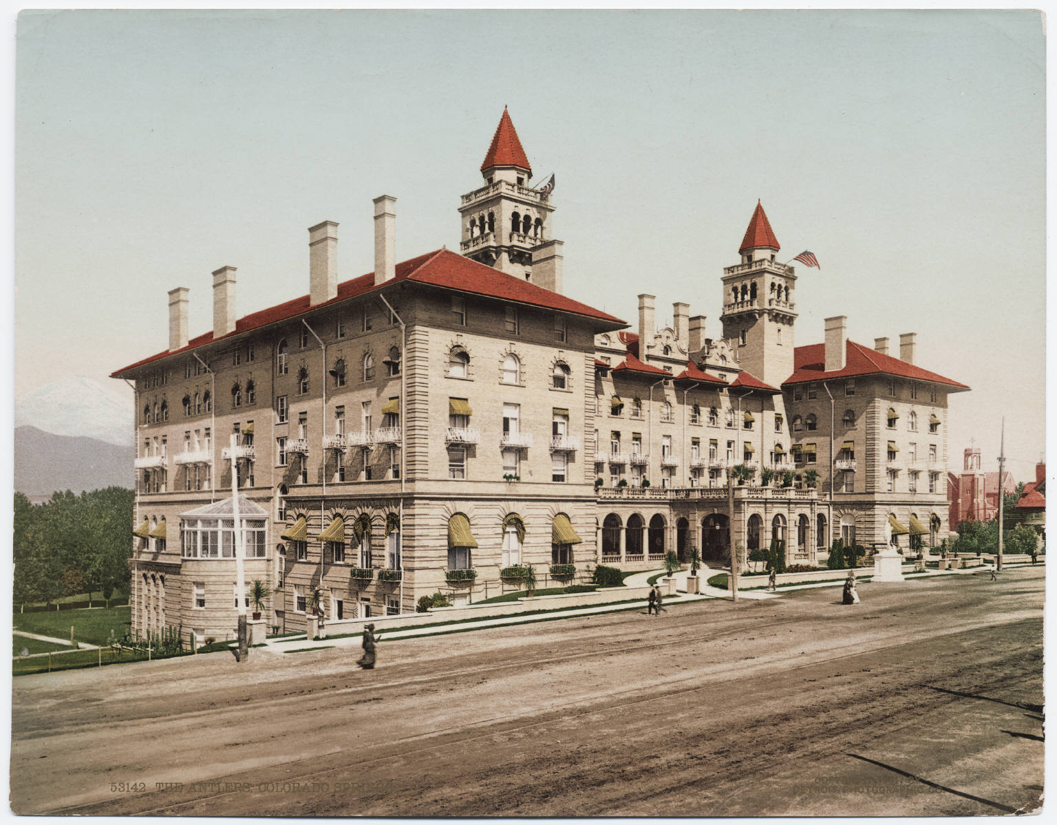 A photochrom postcard published by the Detroit Photographic Company of the Antlers Hotel in Colorado Springs, Colorado.